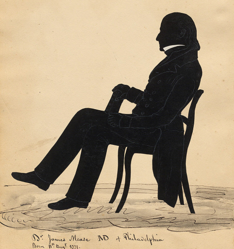 James Mease, MD (1771 - 1846), 1843 Ink wash silhouette, chalk and cut paper on paper